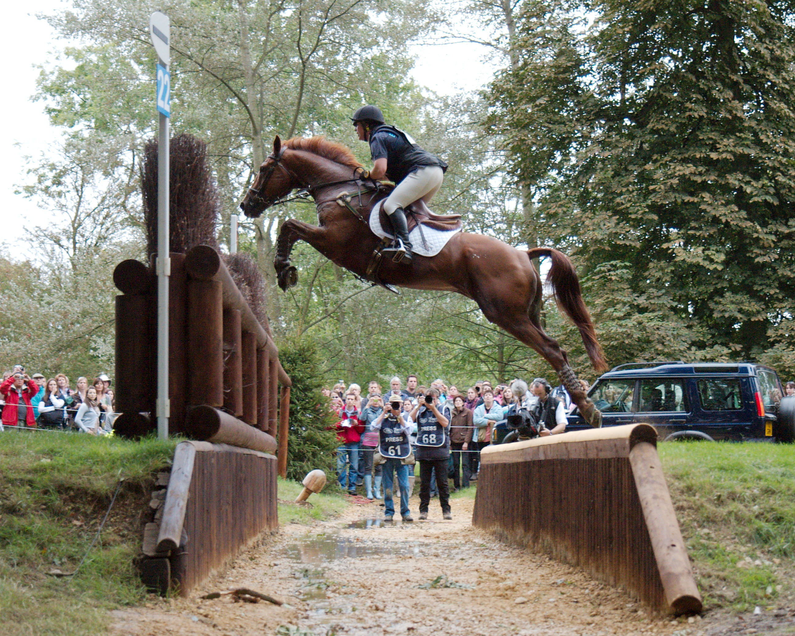 Rosie Thomas and Barry's Best at the Jubilee Leap during the cross country phase of Burghley Horse Trials 2009.